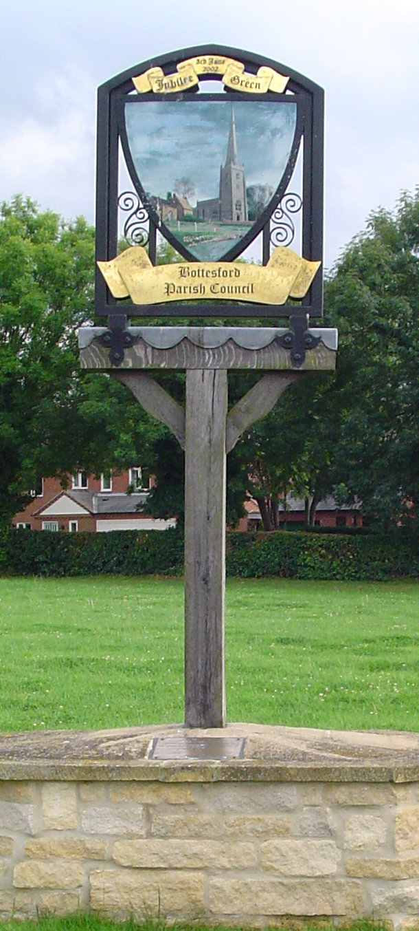 Signpost in Bottesford